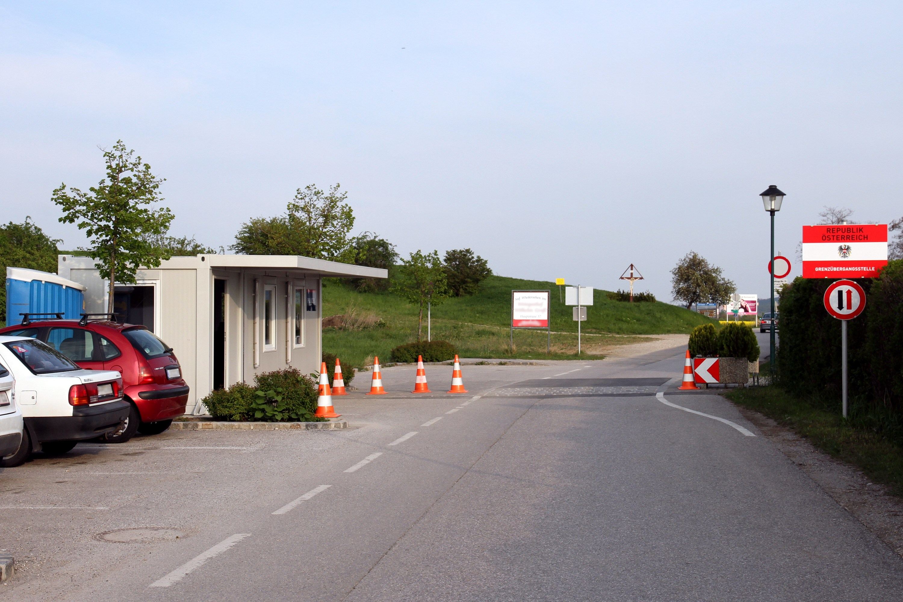 Austria-Hungary border - Schattendorf / Ágfalva